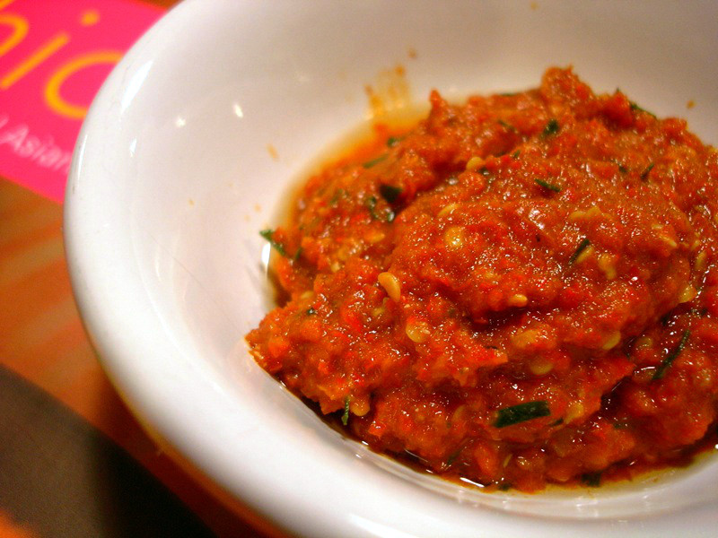 Sambal Belacan made with mixed toasted belcan (shrimp paste), ground chili, kaffir leaves, sugar and water. It is a perfect side for a Peranakan meal per the original uploader's comment at flickr.